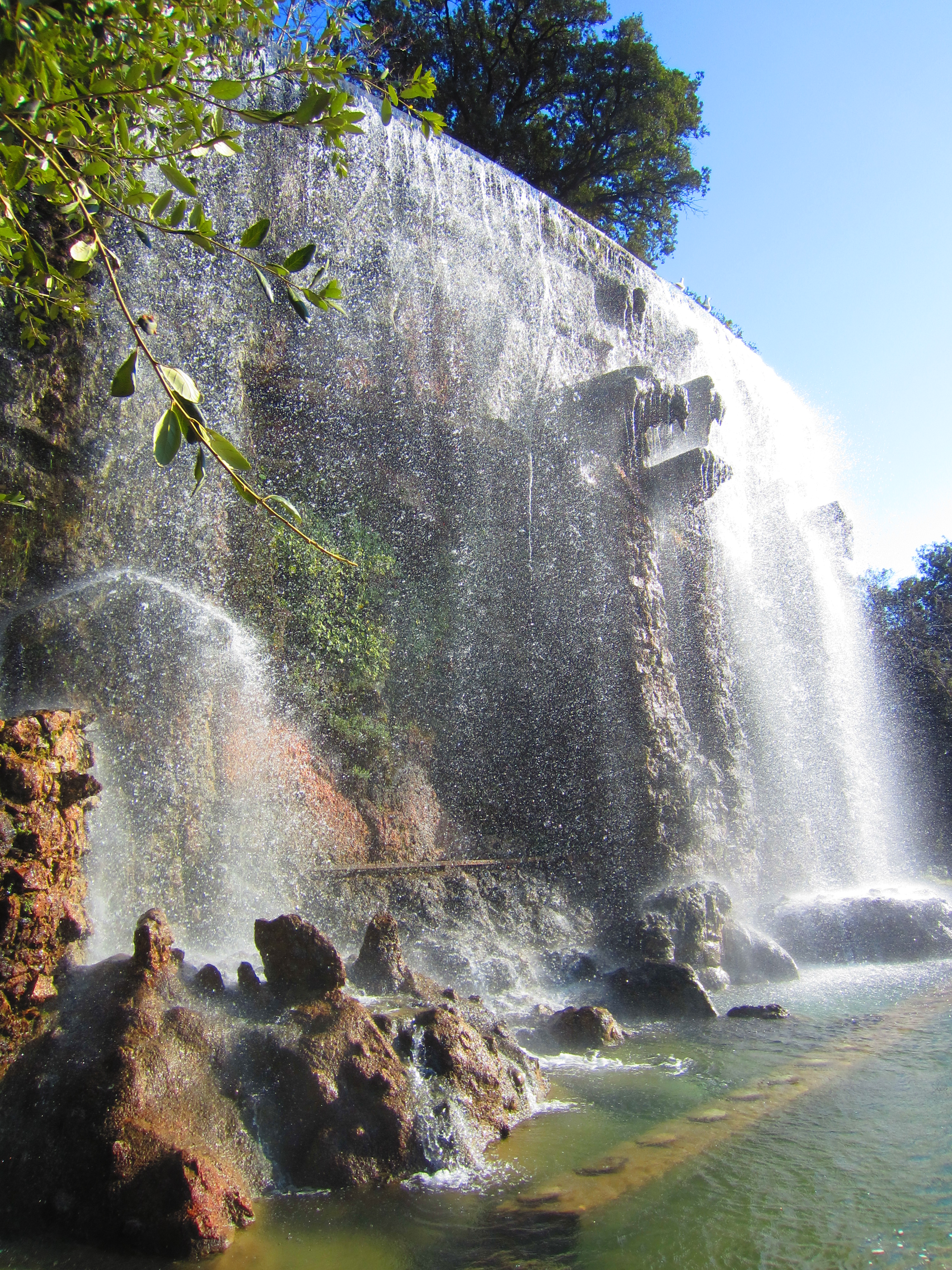 water-fall Nice